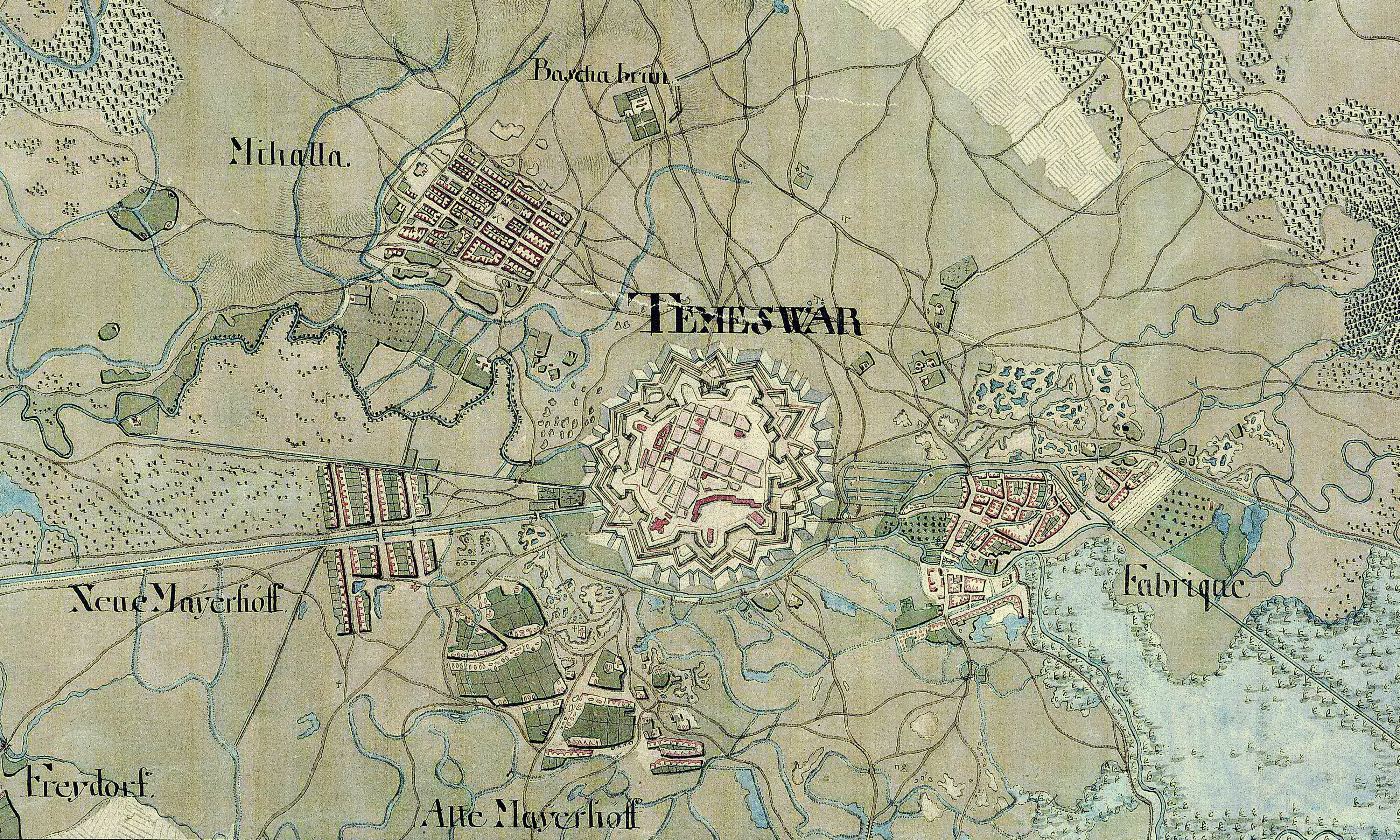 Timișoara on Josephinische Landaufnahme 1769